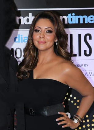 Gauri Khan at Hindustan Times India Most Stylish Awards 2019